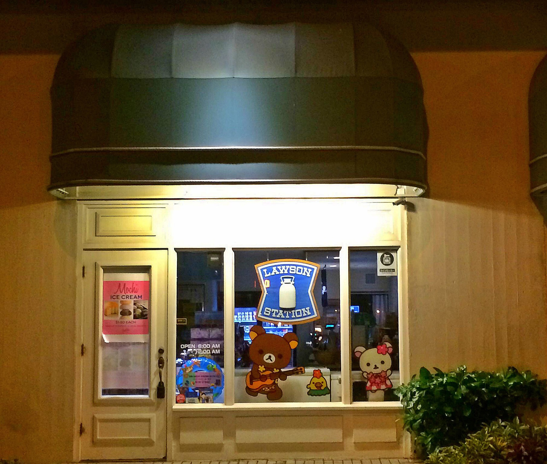 Lawson Station convenience store at the Moana Surfrider, A Westin Resort & Spa